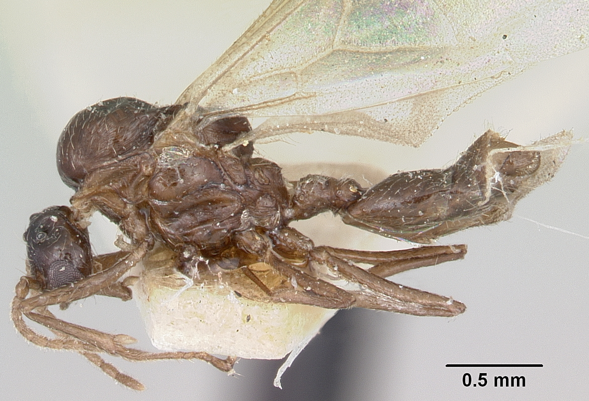 Profile view of ant Crematogaster degeeri specimen casent0101984.